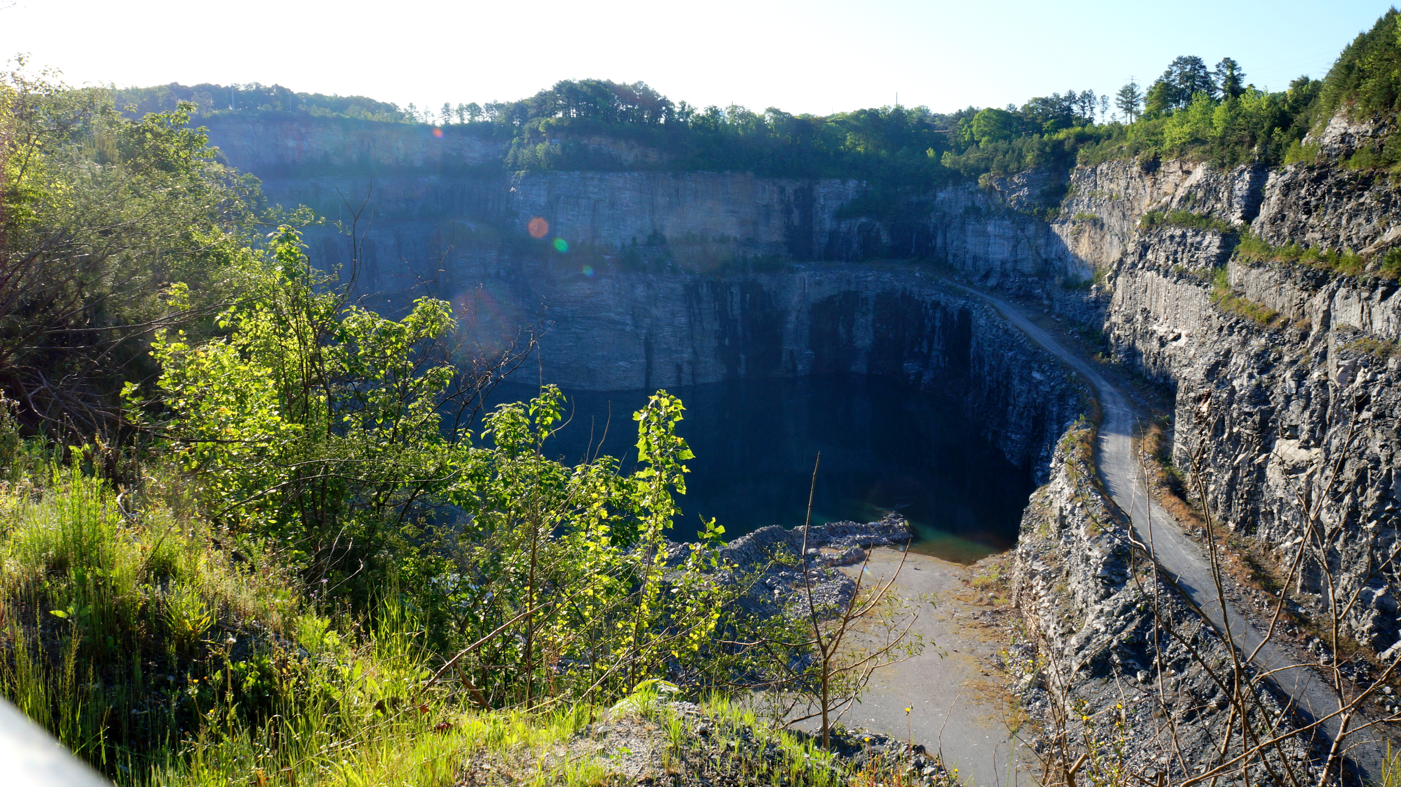 The Quarry, as seen from the observation deck on the northwest side